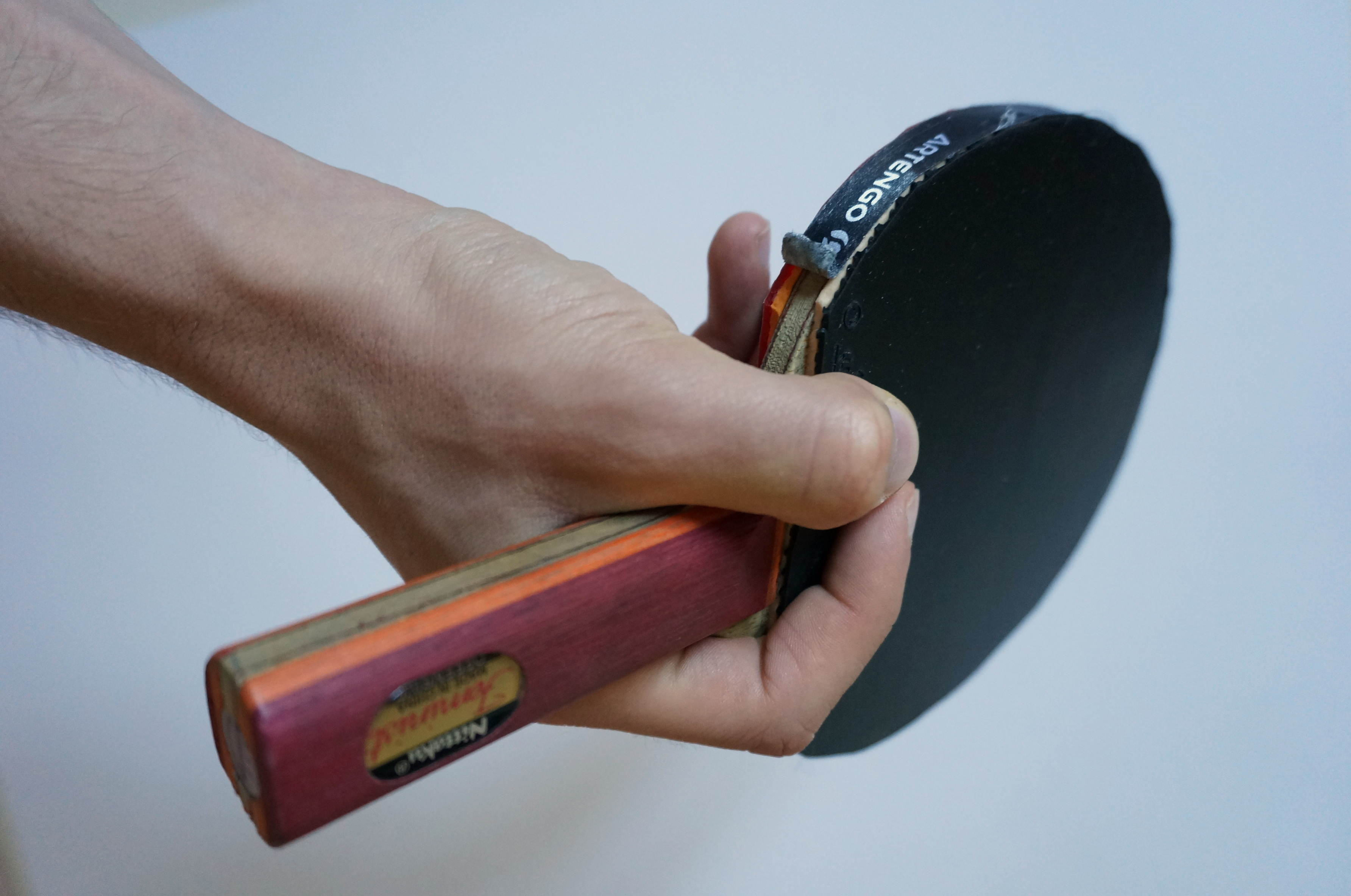 table tennis chinese penholder grip